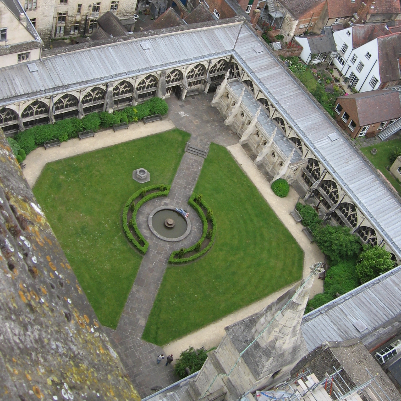 The cloisters of Gloucester Cathedral, seen from the tower.